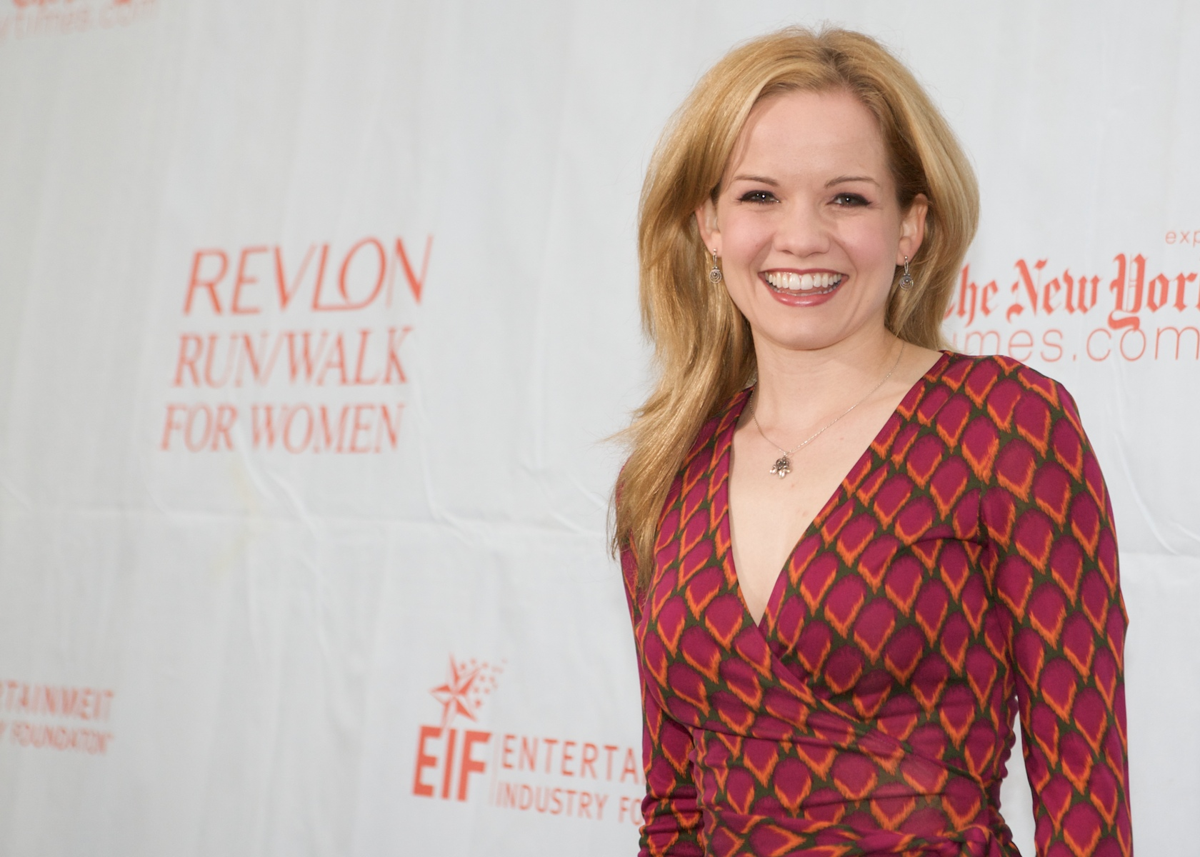 Becky Gulsvig at the 2008 Revlon Run/Walk for Cancer